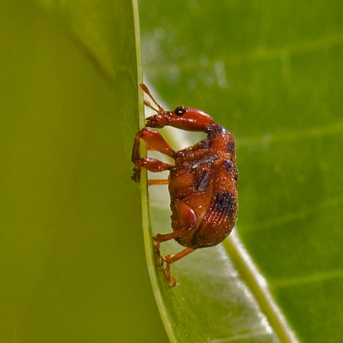 I shot this image on a mango tree near Bangalore, India. This is a weevil of the family Attelabidae. Identification courtesy of Doug Yanega, Entomologist, University of Riverside. User:Dyanega. This is possibly of the genus Deporaus (Rhynchitidae = Attelabidae:Rhynchitinae auct.).